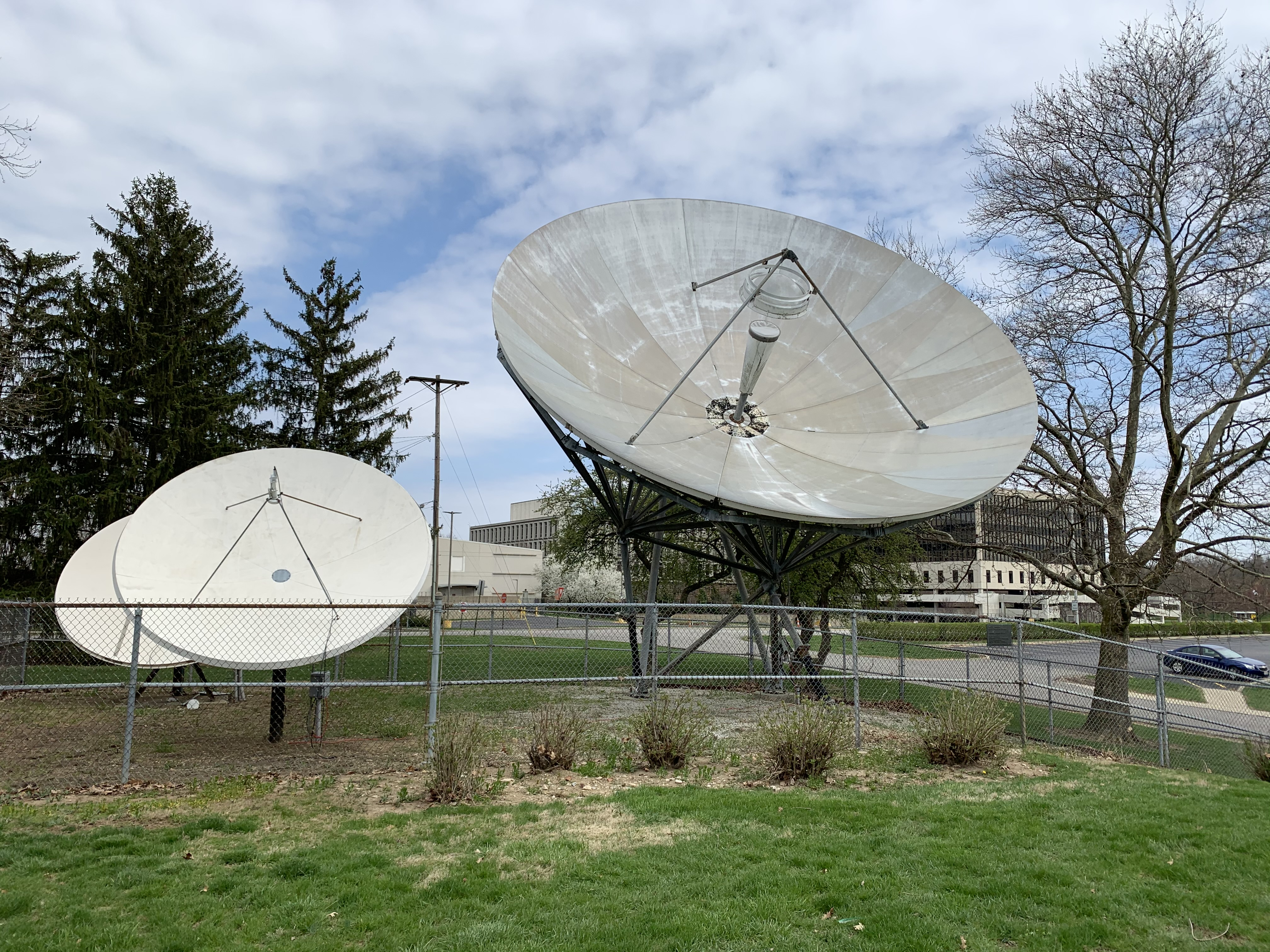 Satellite dishes outside the Fawcett Center for Tommorow. These are used for communication and transmission of data from WOSU.